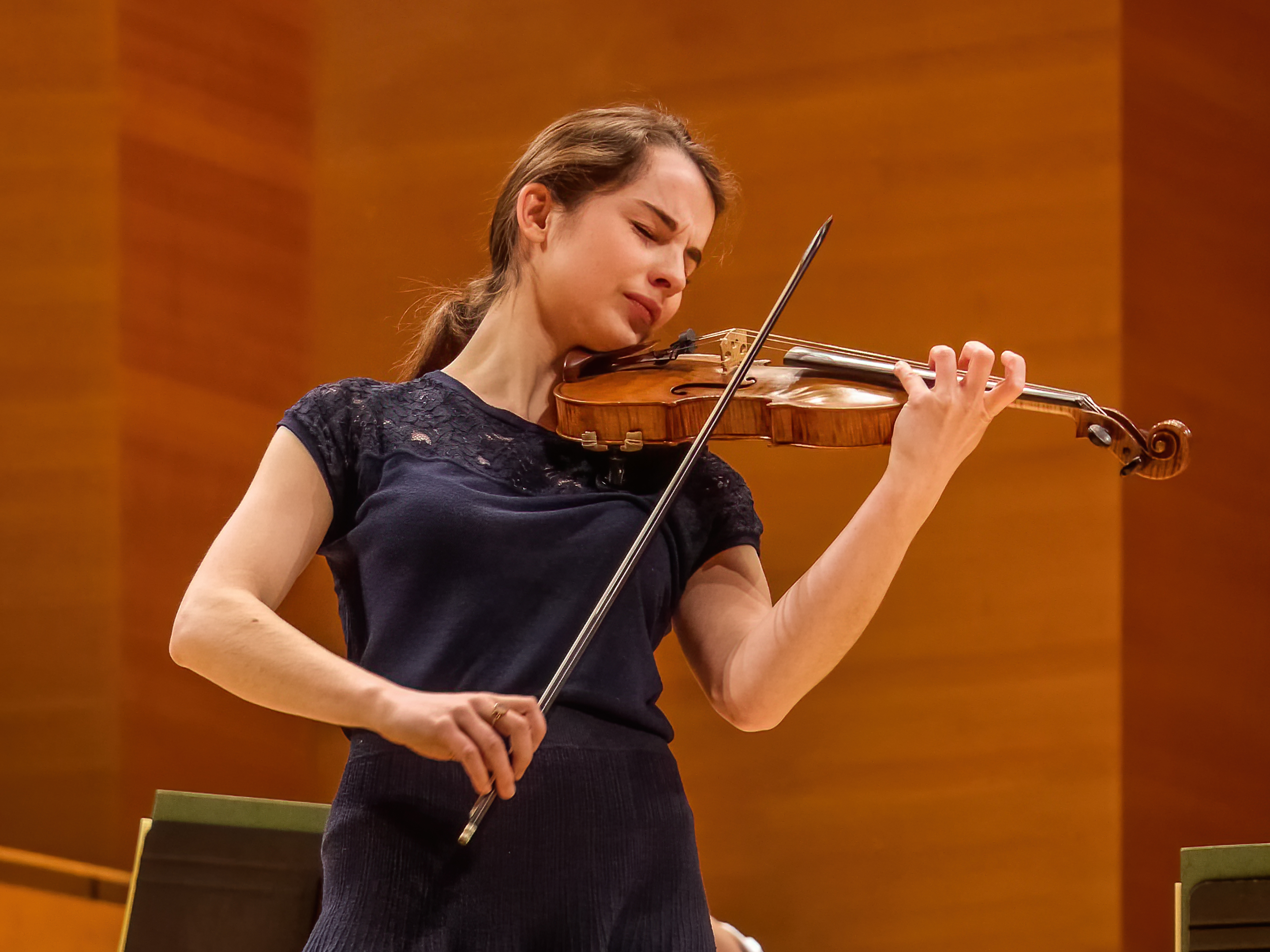 Alina Pogostkina at a rehearsal at L'Auditori (Barcelona)